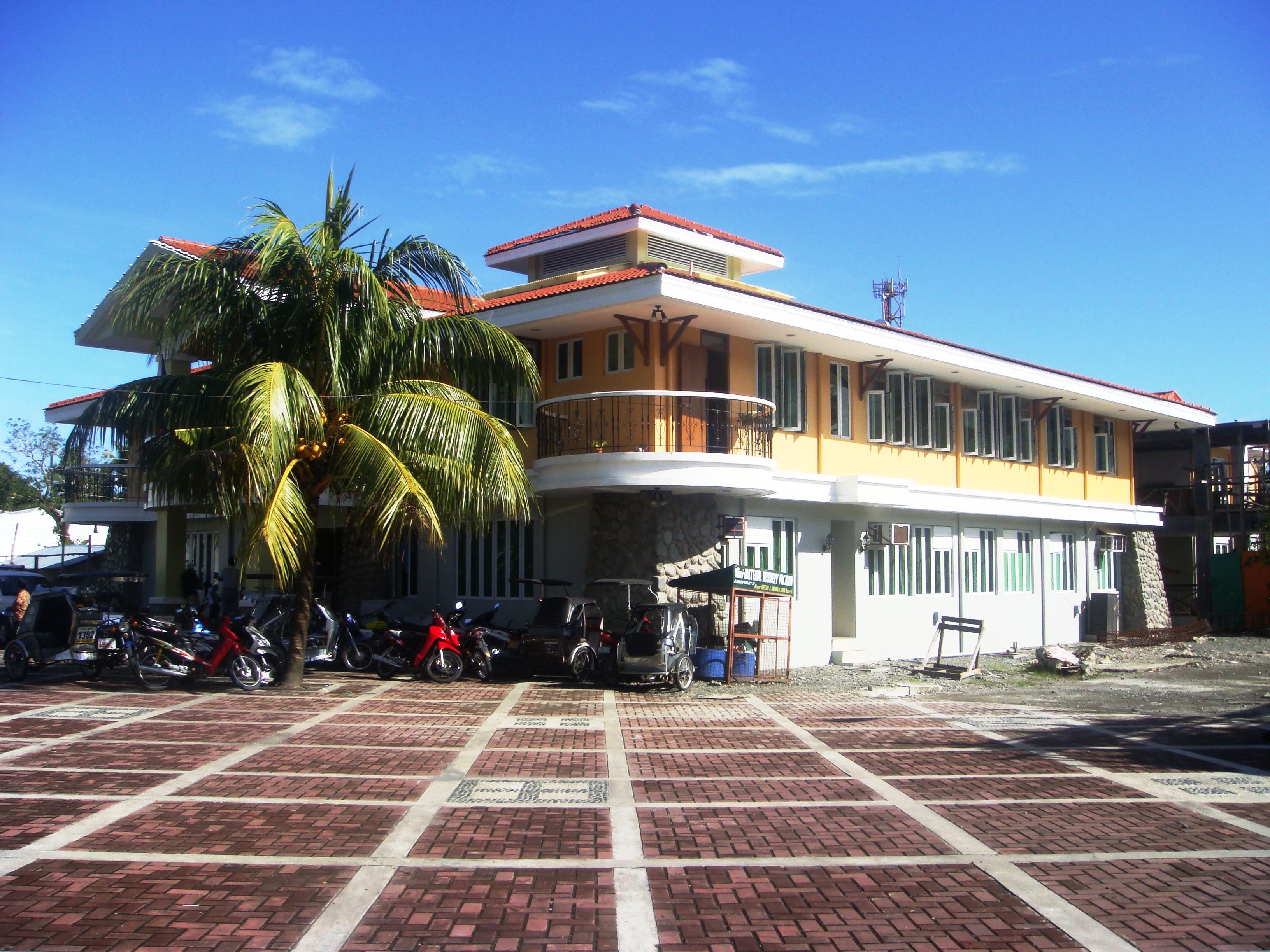 Municipal Town Hall & Plaza, Baler, Aurora,[1] (Became capital of the sub-province of Aurora on 1951 & capital of the province of Aurora (1979).